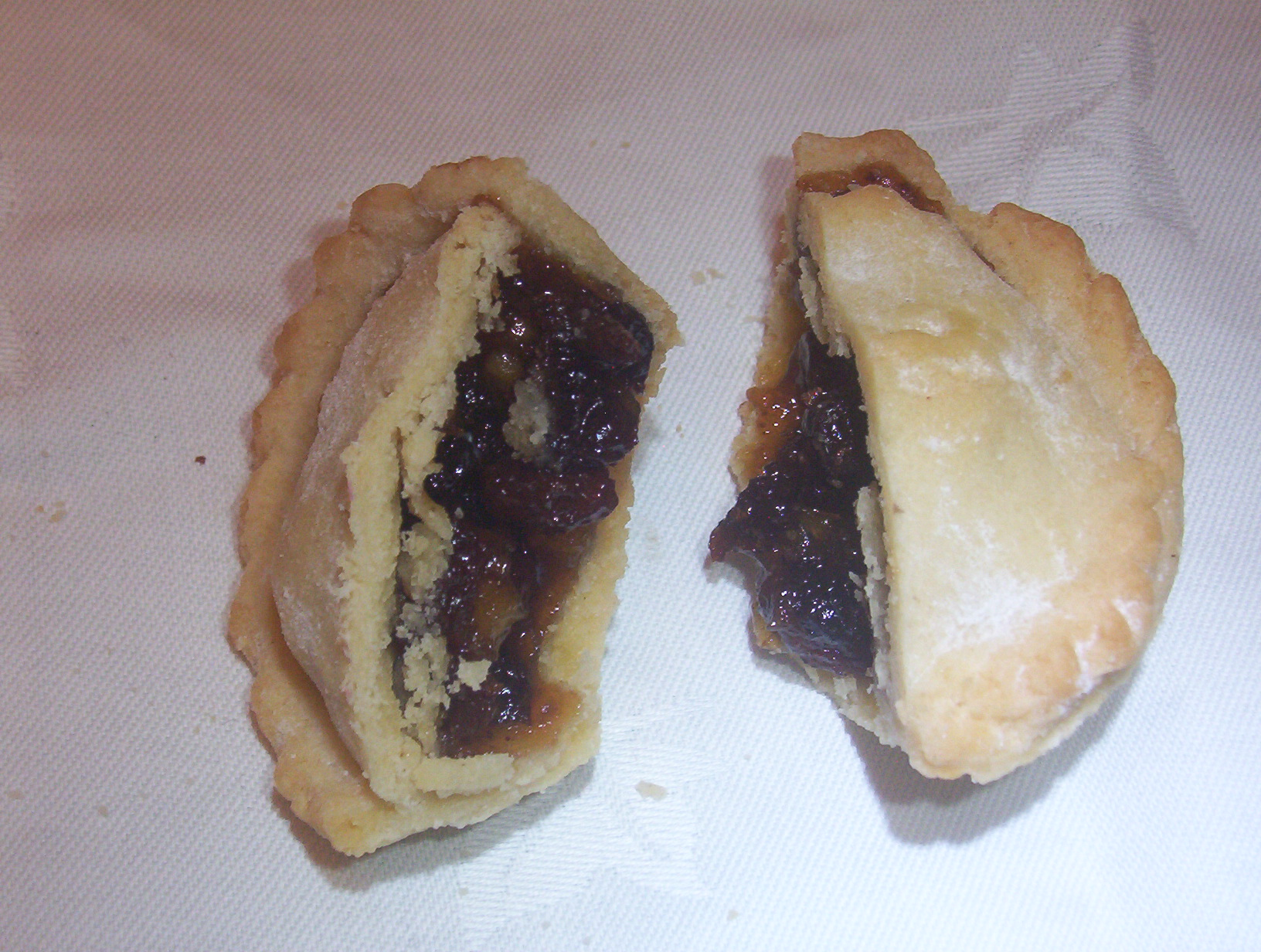 Mince pie consisting of a sweet pastry case and a filling containing dried fruit. 70 mm in diameter